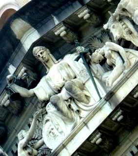 A depiction of Justice in Rodolfo Nolli's sculpture Allegory of Justice on the tympanum of the Old Supreme Court Building, Singapore.